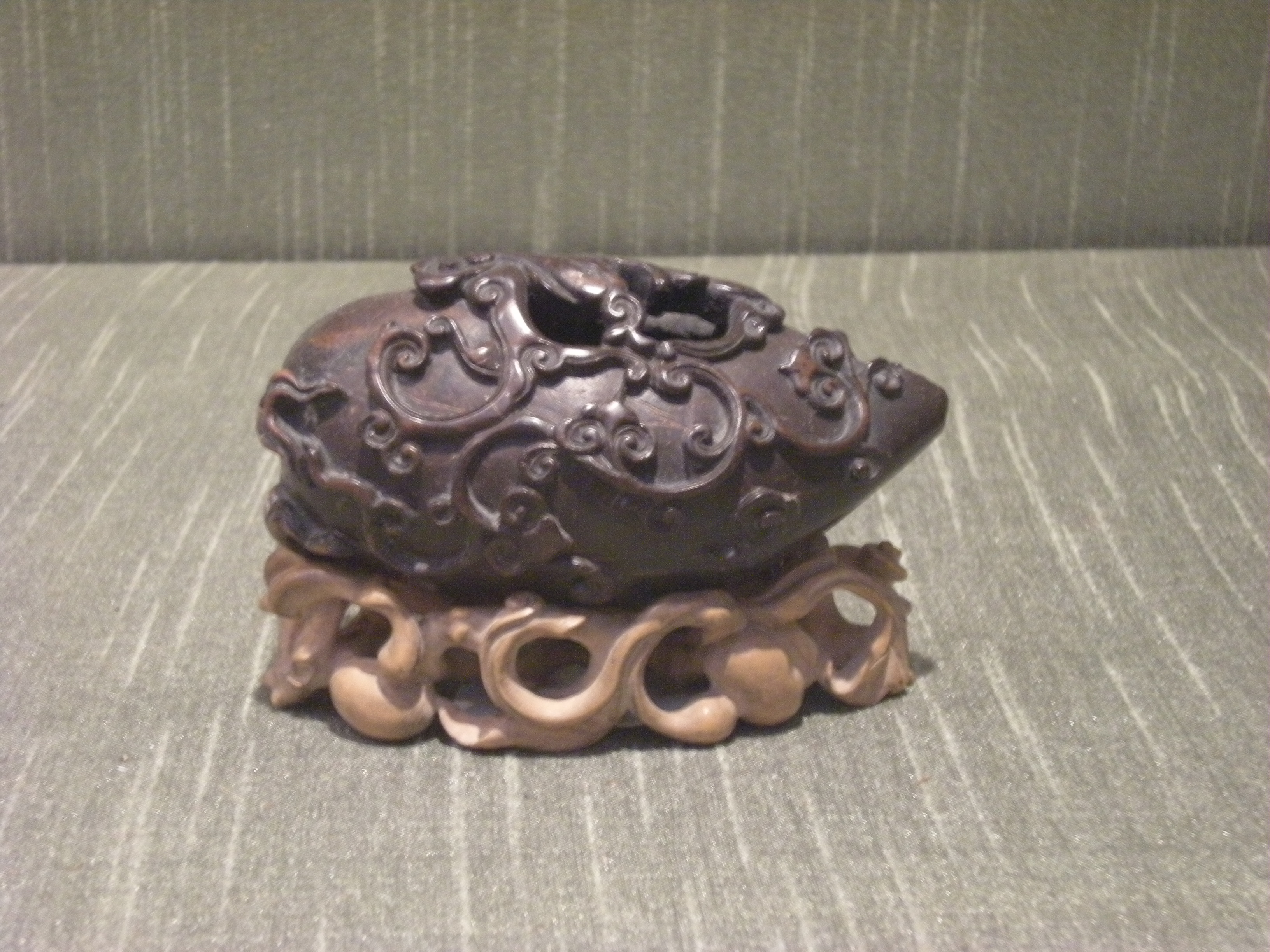 Pinang wood water dropper in Suzhou museum。 Period：Qing Dynasty，Qianlong Period（1736-1796A.D.） 中文（中国大陆）: 苏州博物馆藏清代槟榔木雕水注